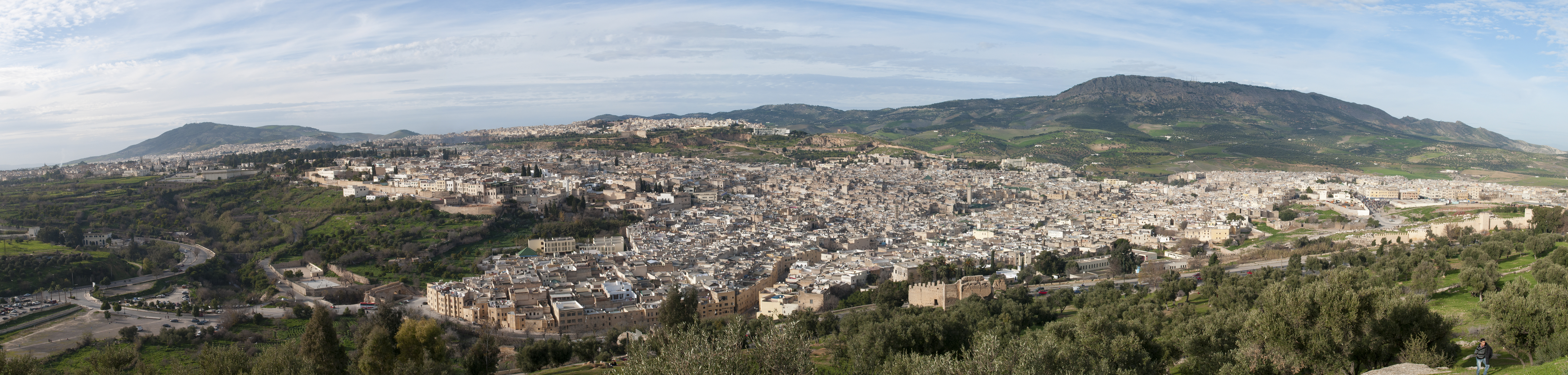 Panorama of Fes